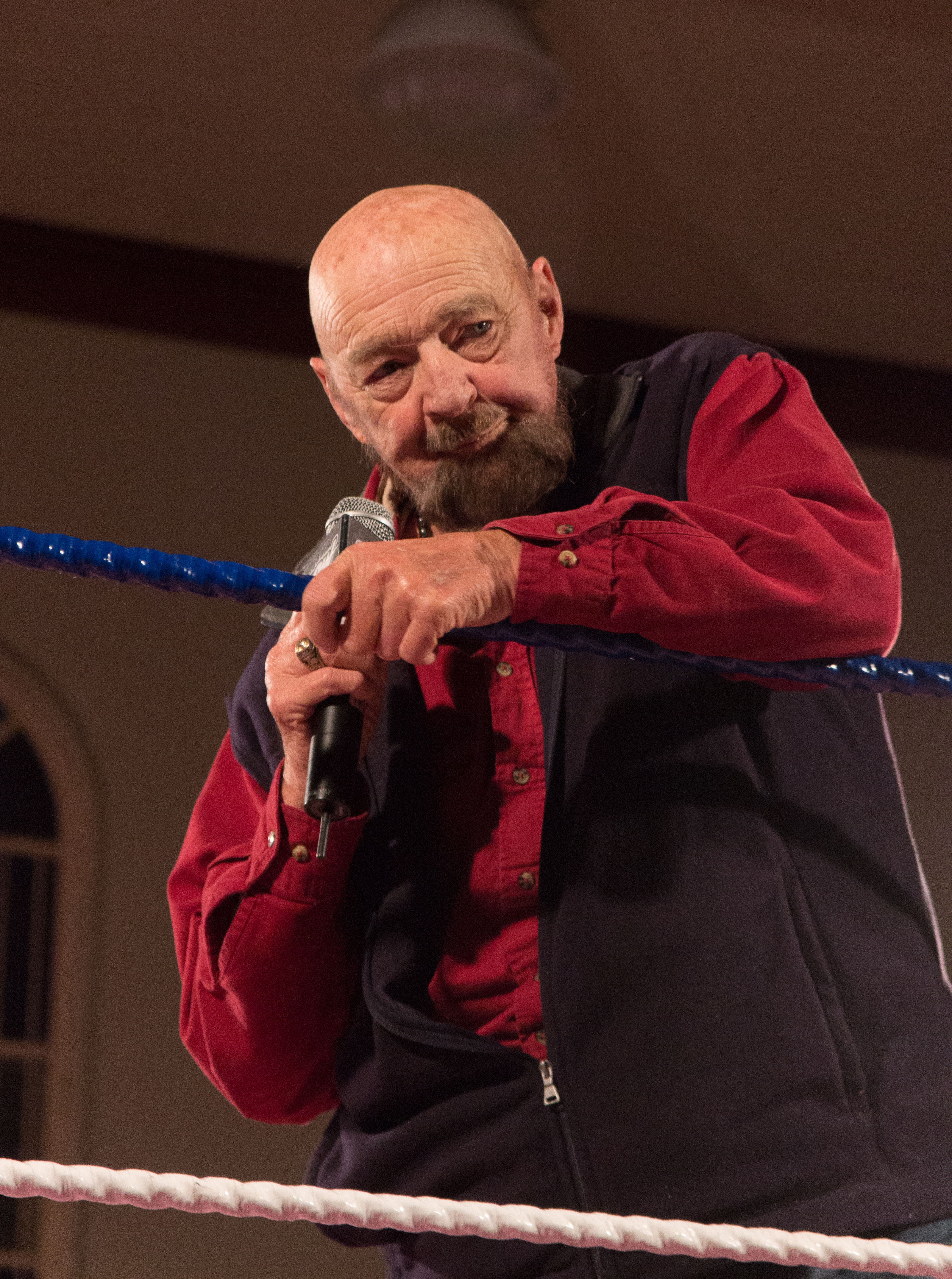 Retired professional wrestler Paul Vachon, nicknamed "The Butcher", at an NCW Femme Fatales show.